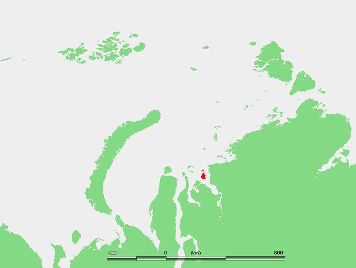 Location of Sibiryakov Island, Russia